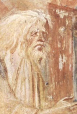 fresco: Portrait of Simeon (detail)